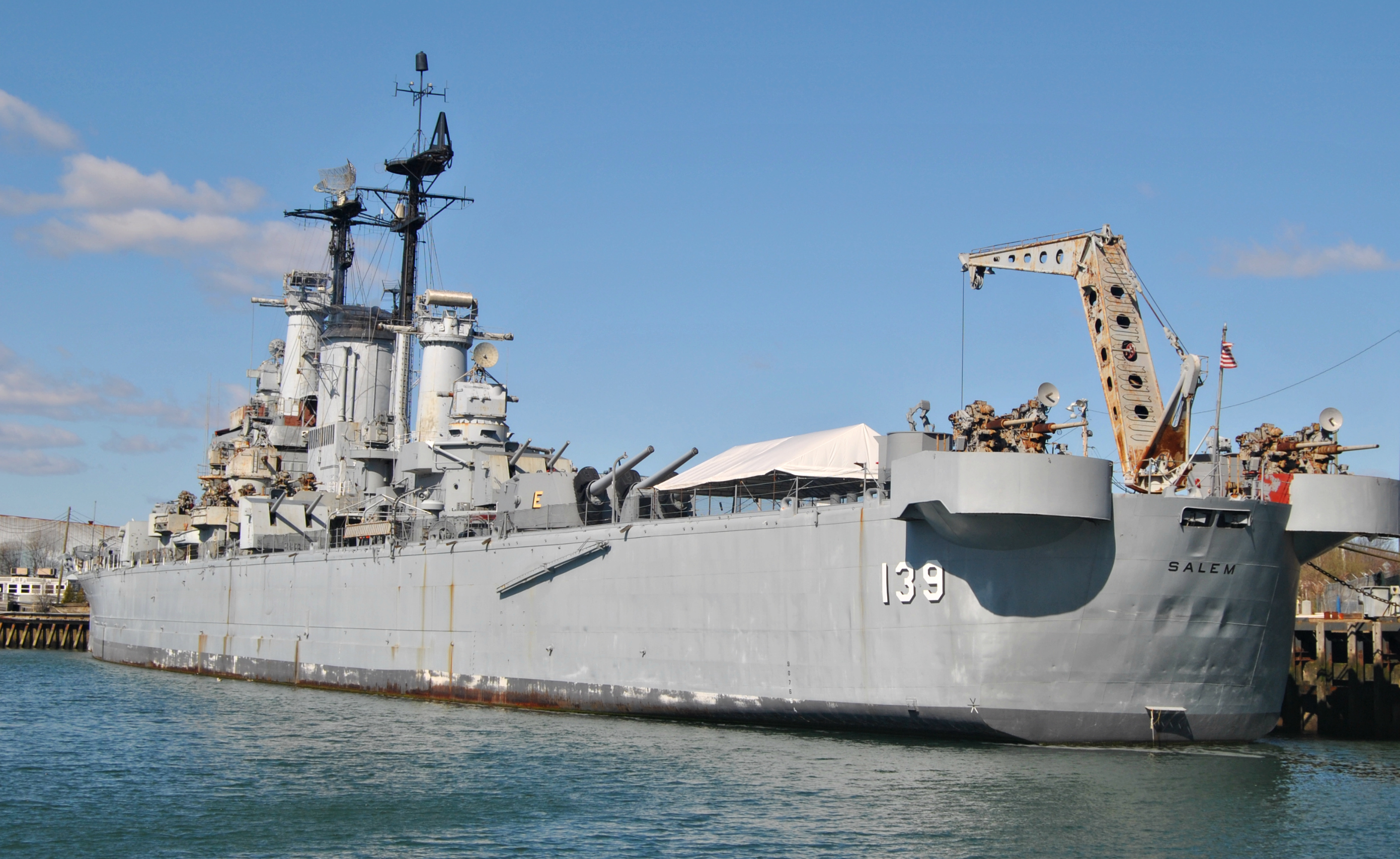 The third USS Salem (CA-139) is a Des Moines-class heavy cruiser, formerly commissioned in the United States Navy. The world's last all-gun heavy cruiser to enter commission, she is currently open to the public as a museum ship in Quincy, Massachusetts. Information From Here / More.. Ariel shot.. Here